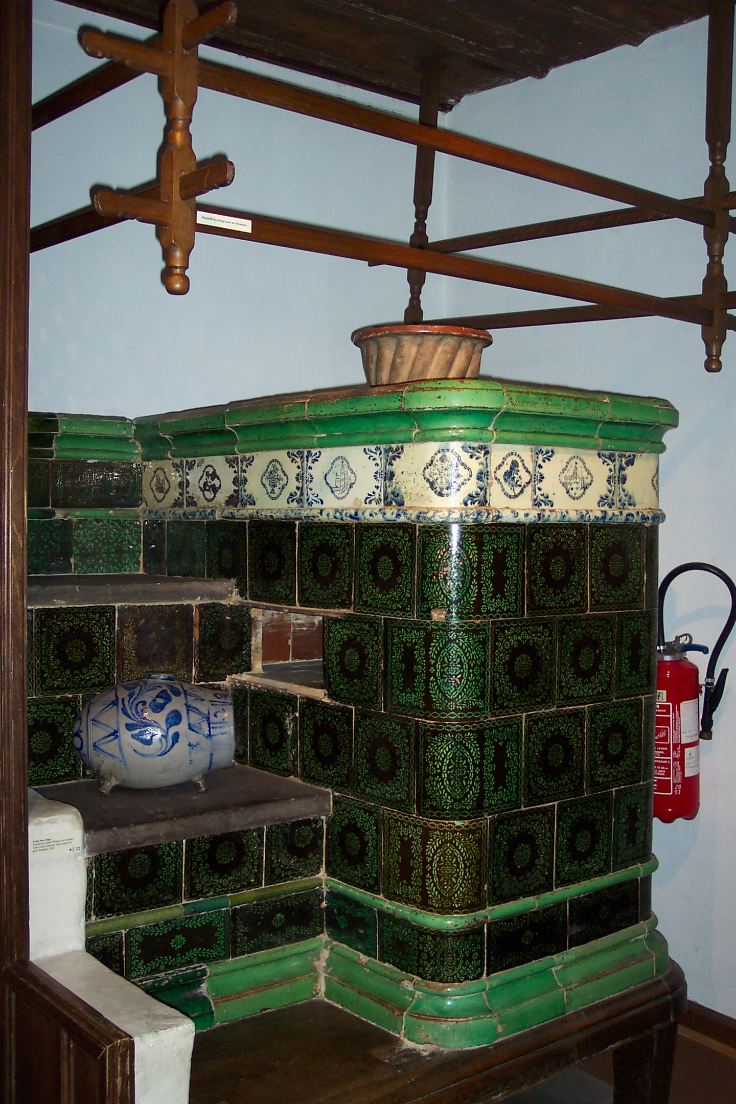 A ceramic wood-fired heater used to dry clothes in an Alsatian house. Strasbourg, France